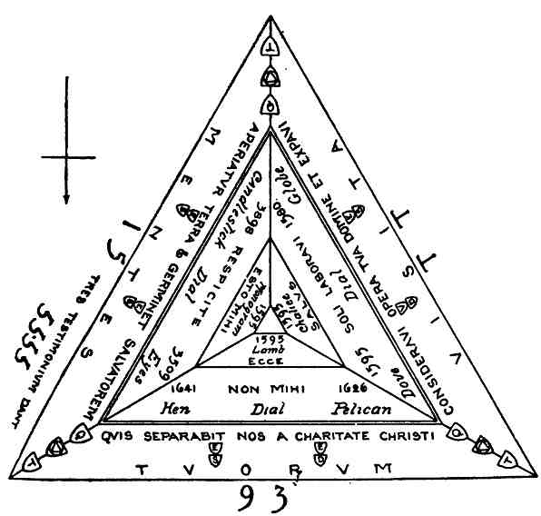 Scheme of disposition of symbols on the Rushton Triangular Lodge